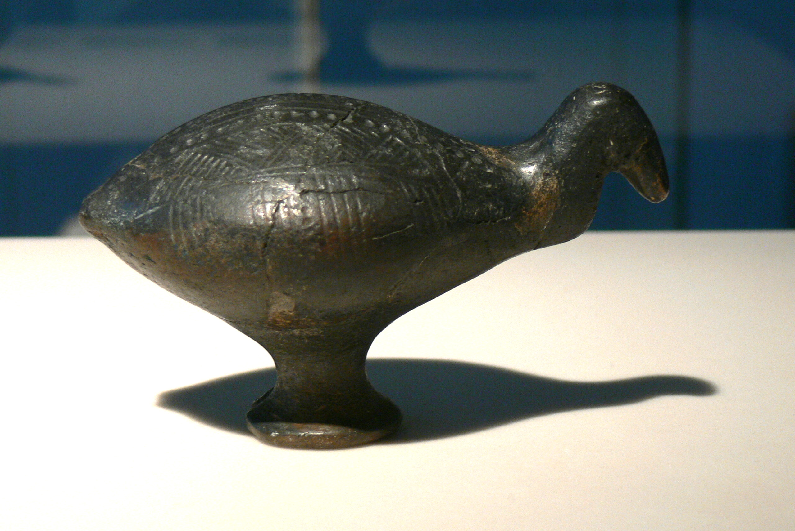 German National Museum ( Nuremberg / Germany ). Bird shaped clay rattle with graphite coating, 1000 - 600 BC, from Moiecice ( Poland ).